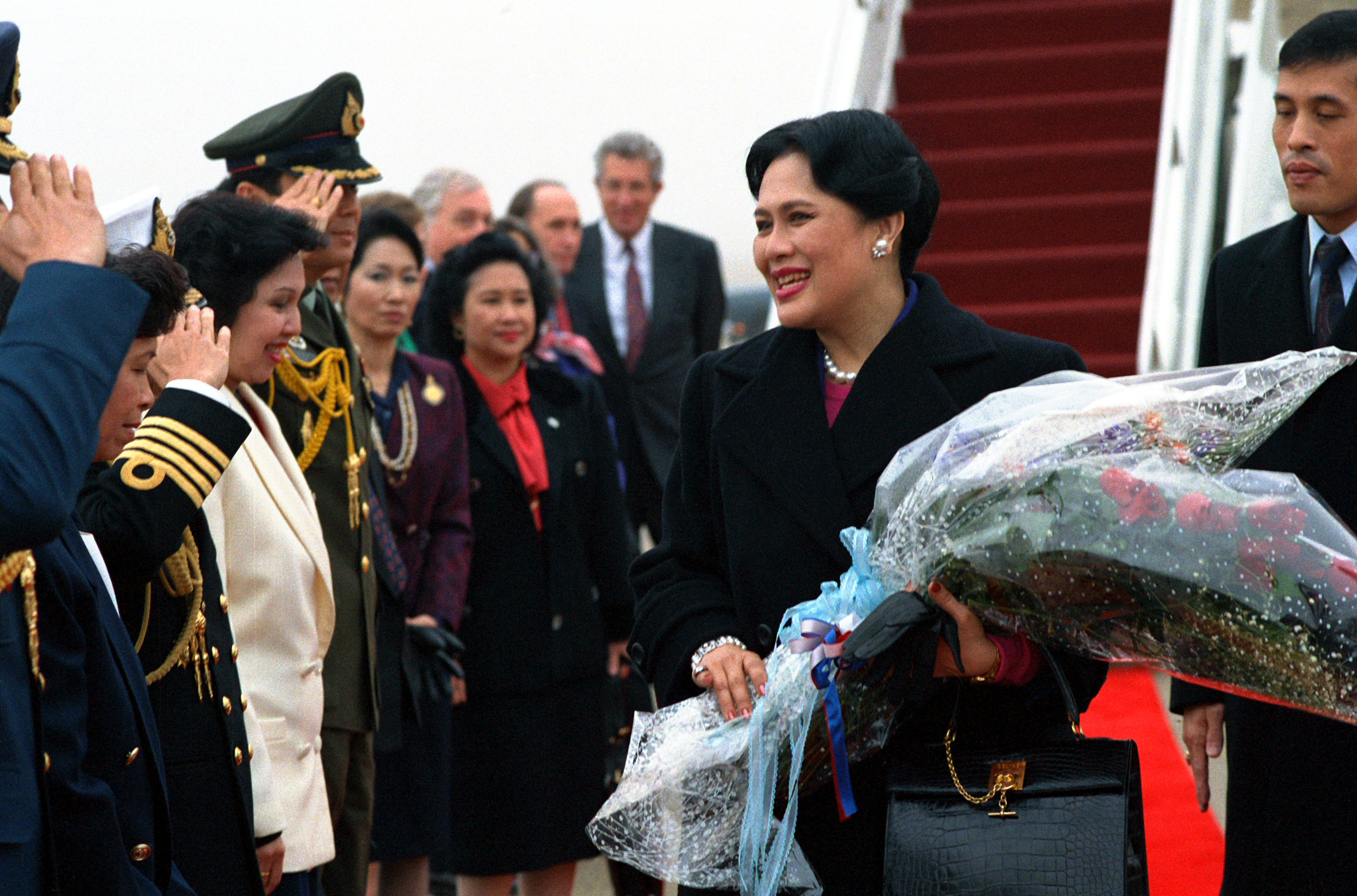 Sirikit Kitiyakara, the queen of Thailand, smiles as she meets officials gathered to greet her upon her arrival on base.